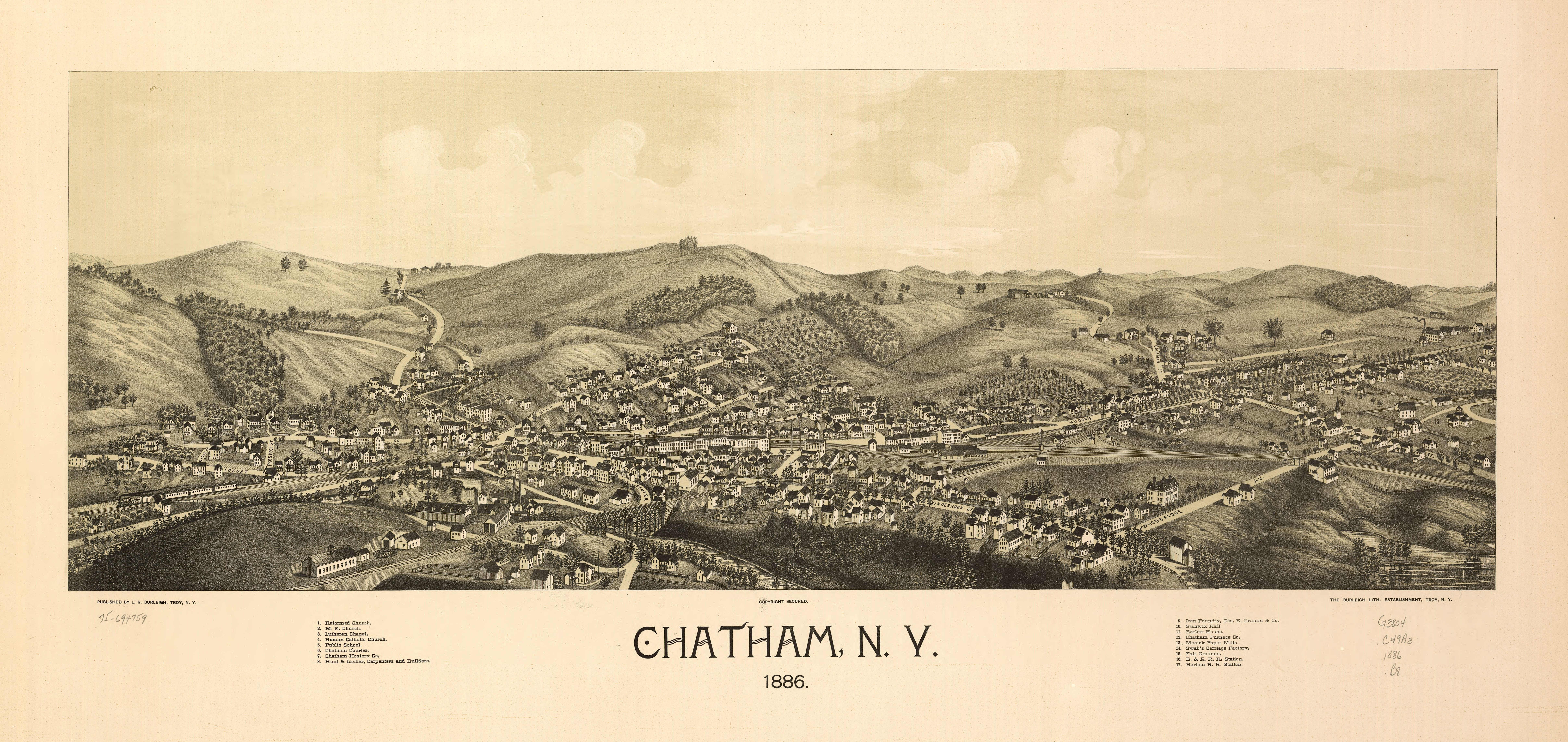 Perspective map not drawn to scale. Bird's-eye-view. LC Panoramic maps (2nd ed.), 551 Available also through the Library of Congress Web site as a raster image. Indexed for points of interest. AACR2